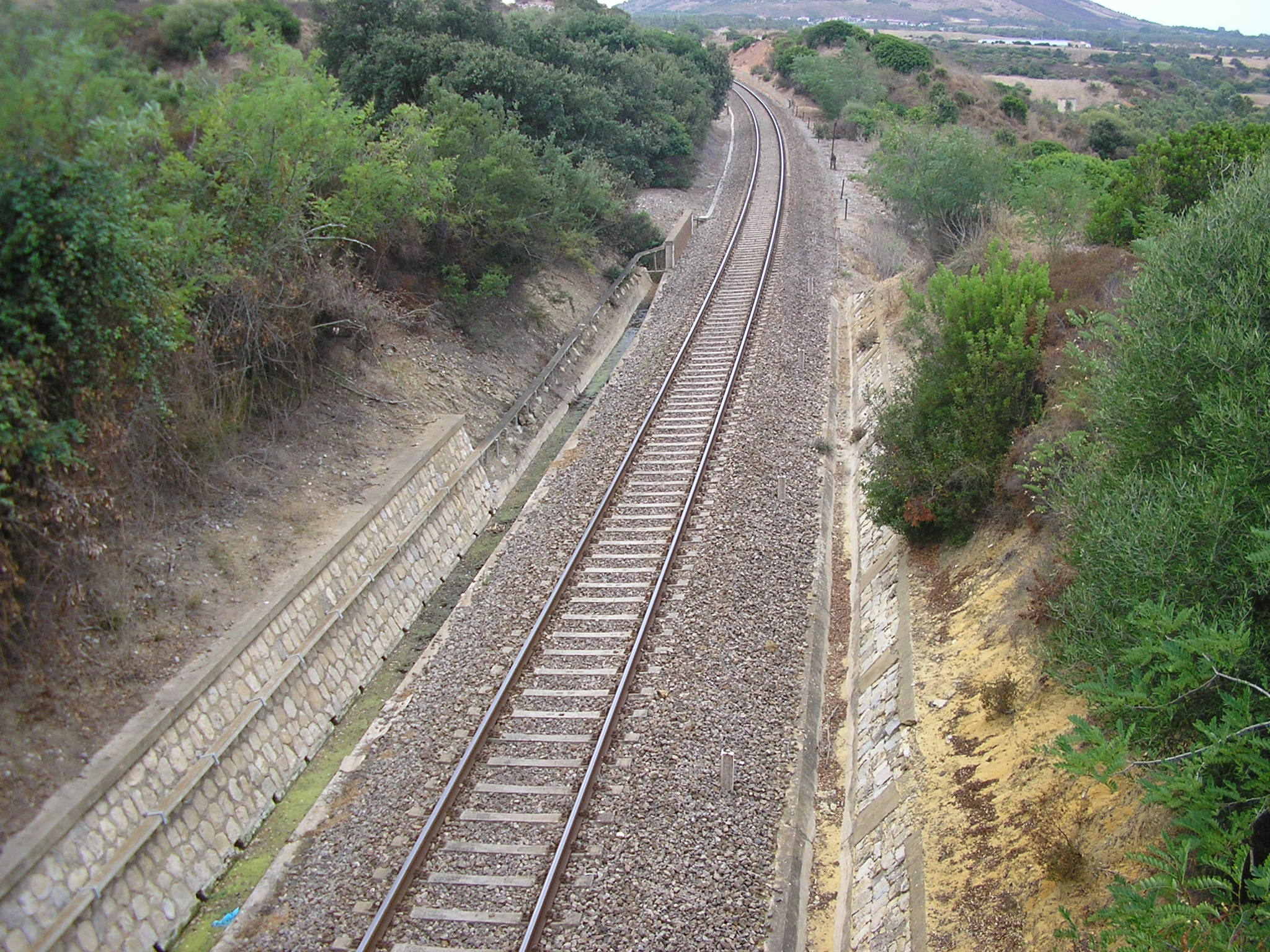 Track of the railway Villamassargia-Carbonia Stato, looking to Carbonia, seen from a bridge in Barbusi, Sardinia, Italy